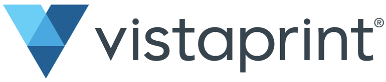 Logo of Vistaprint, a company that creates customised printing, graphic design and marketing products.